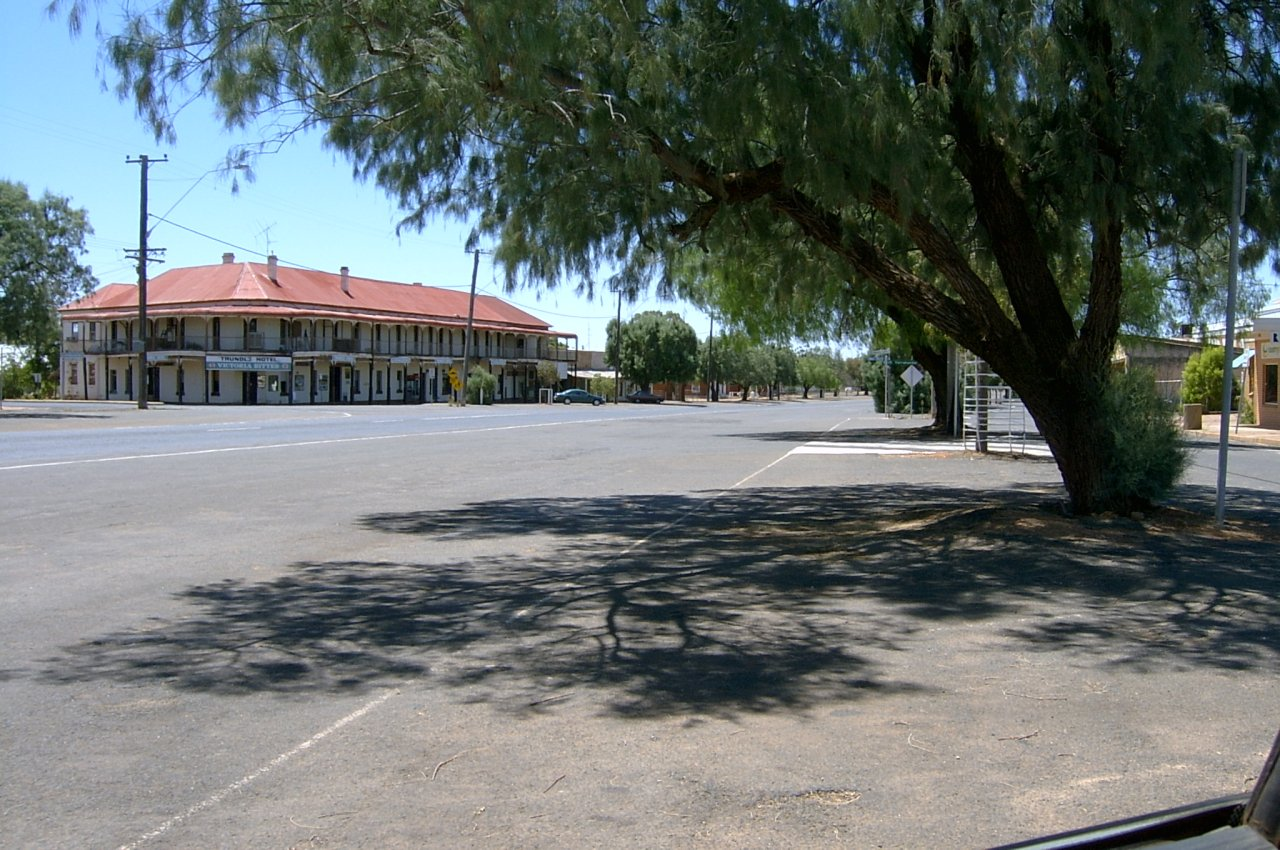 Main Street of Trundle, NSW, Australia, showing the Trundle Pub.